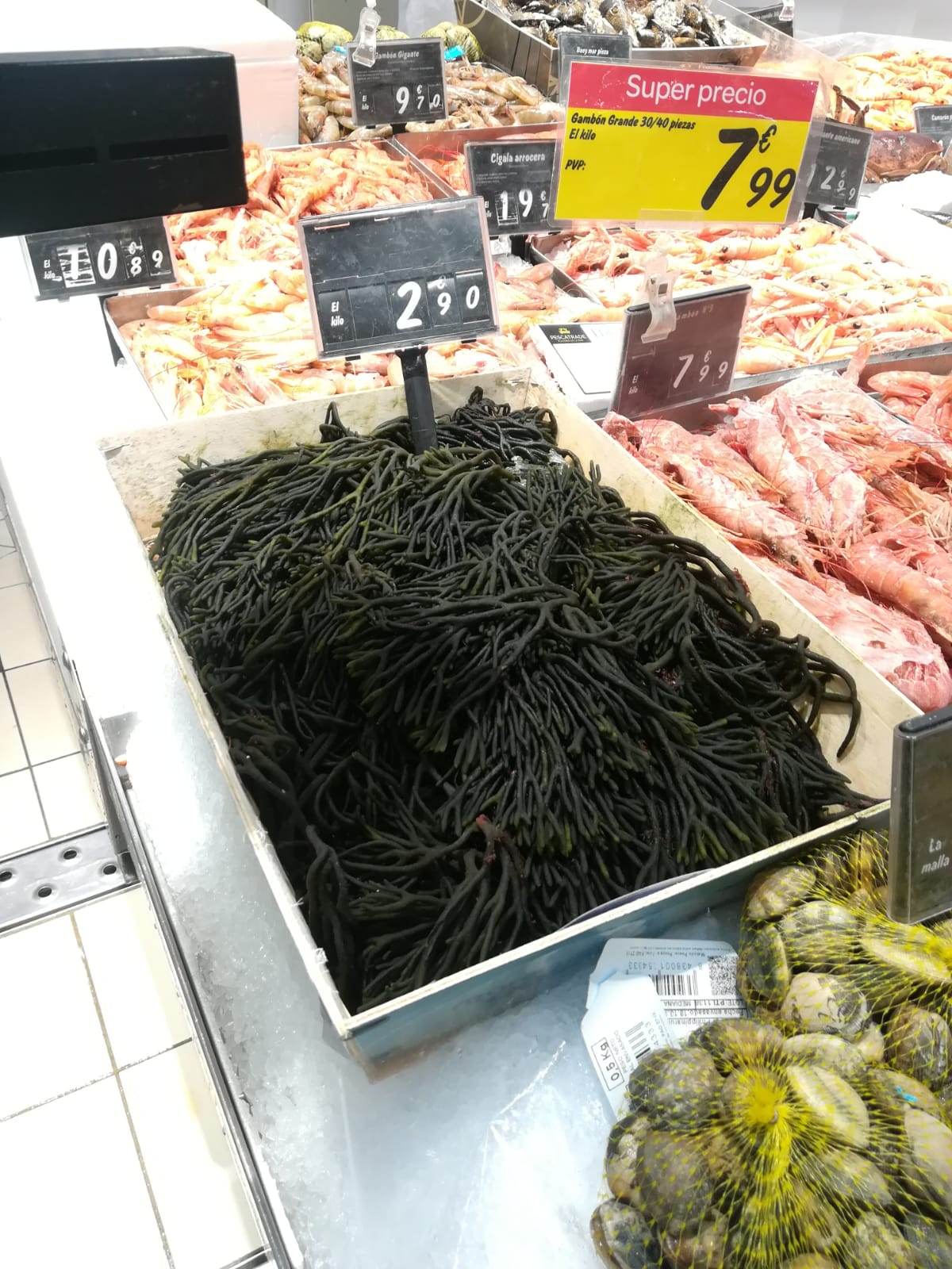 Green algae Codium tomentosum exposed to sale in a fish market.